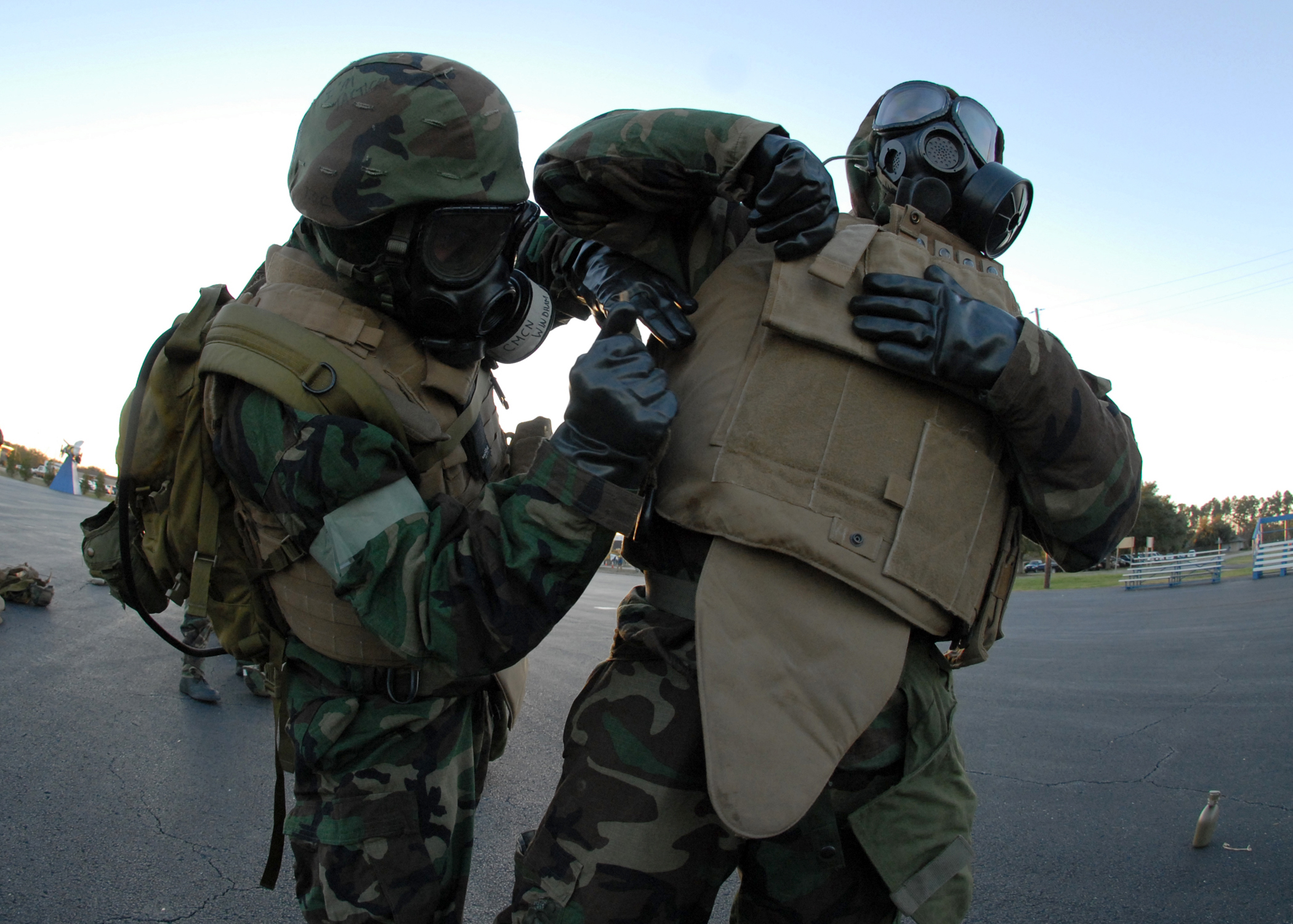 GULFPORT, Miss. (Oct. 28, 2008) Seabees assigned to Naval Mobile Construction Battalion (NMCB) 1 participate in a chemical, biological and radiological warfare drill at Naval Construction Battalion Center, Gulfport. The drill helps acclimate the battalion to their mission oriented protective posture suits and battle gear as they prepare for their upcoming field exercise, "Operation: Desert Justice." (U.S. Navy photo by Mass Communication Specialist 1st Class Chad Runge/Released)